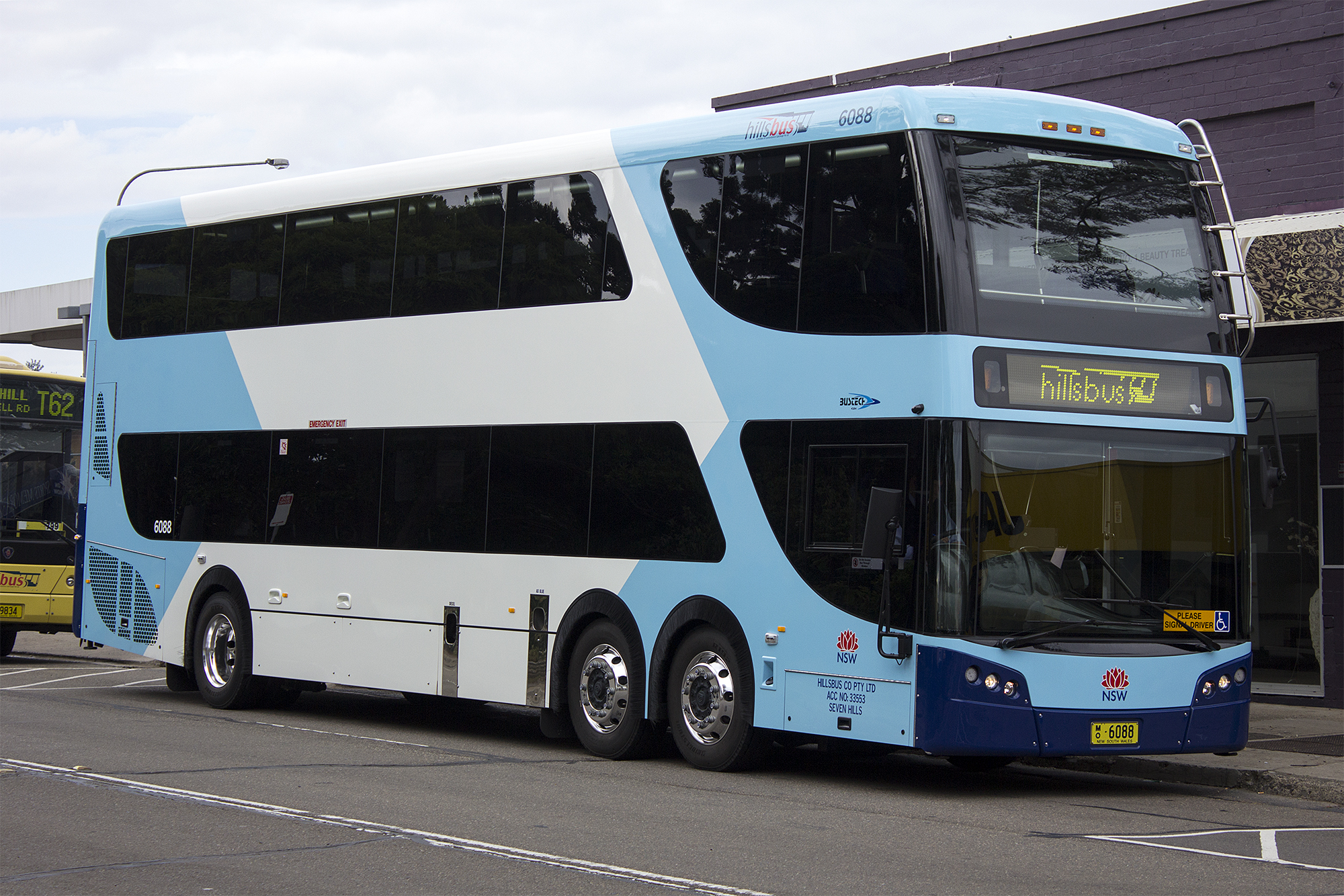 Transport NSW liveried (mo 6088), operated by Hillsbus, Bustech CDi at Castle Hill Interchange in Castle Hill, New South Wales.